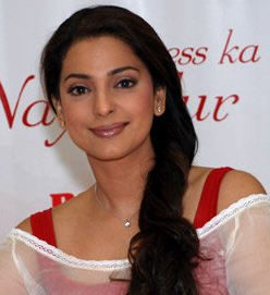 Juhi Chawla at the 2009 launch of Rooh Afza.